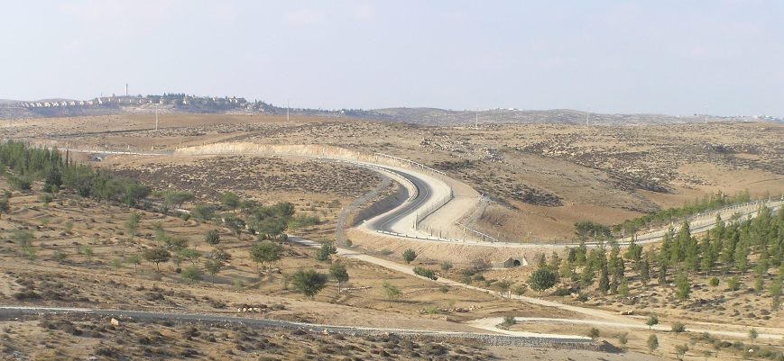 Israeli West Bank Barrier - North east of Meitar, photographed by eman, Sep 2006